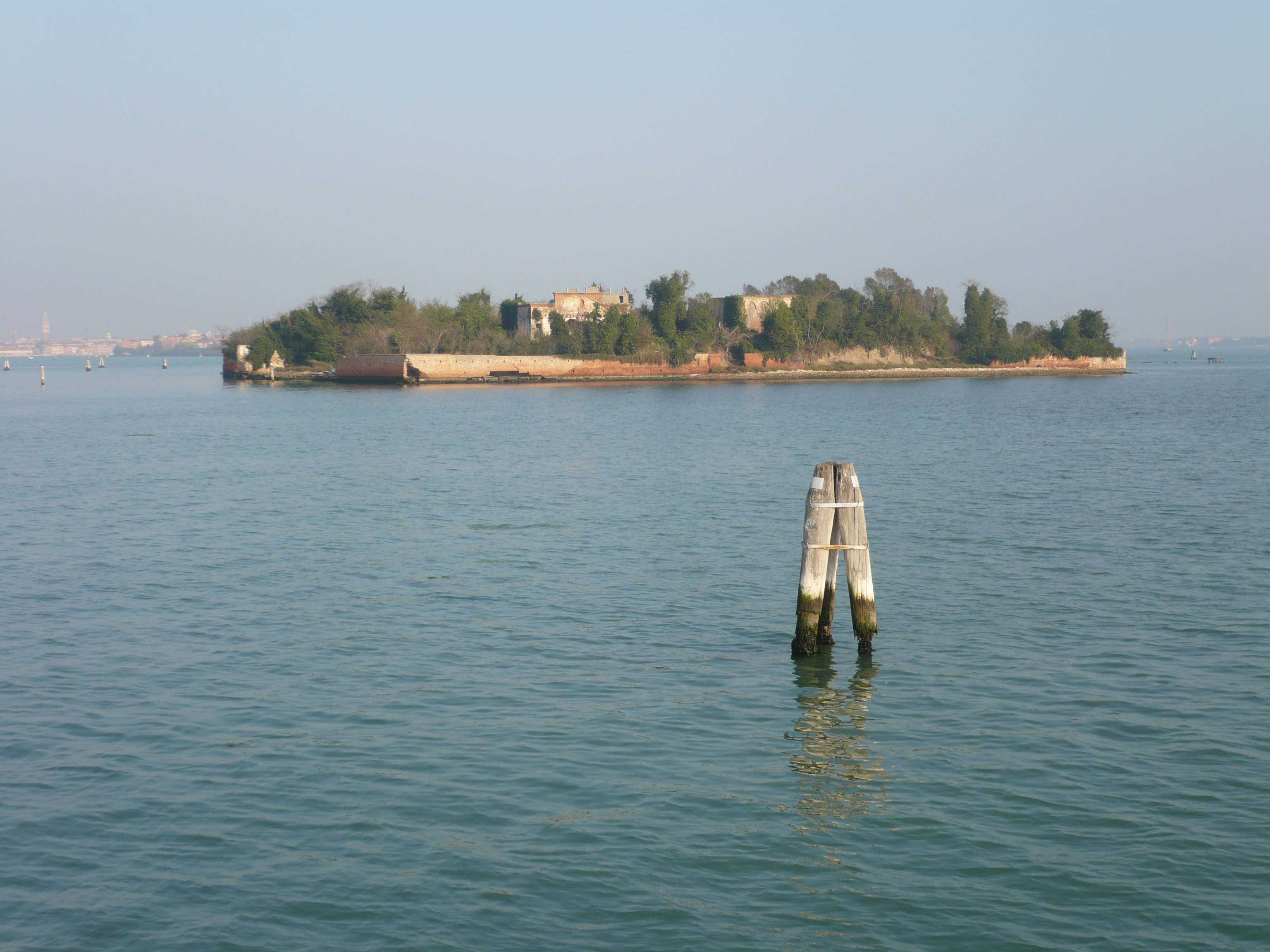 Island of San Giorgio in Alga. Venice, Italy